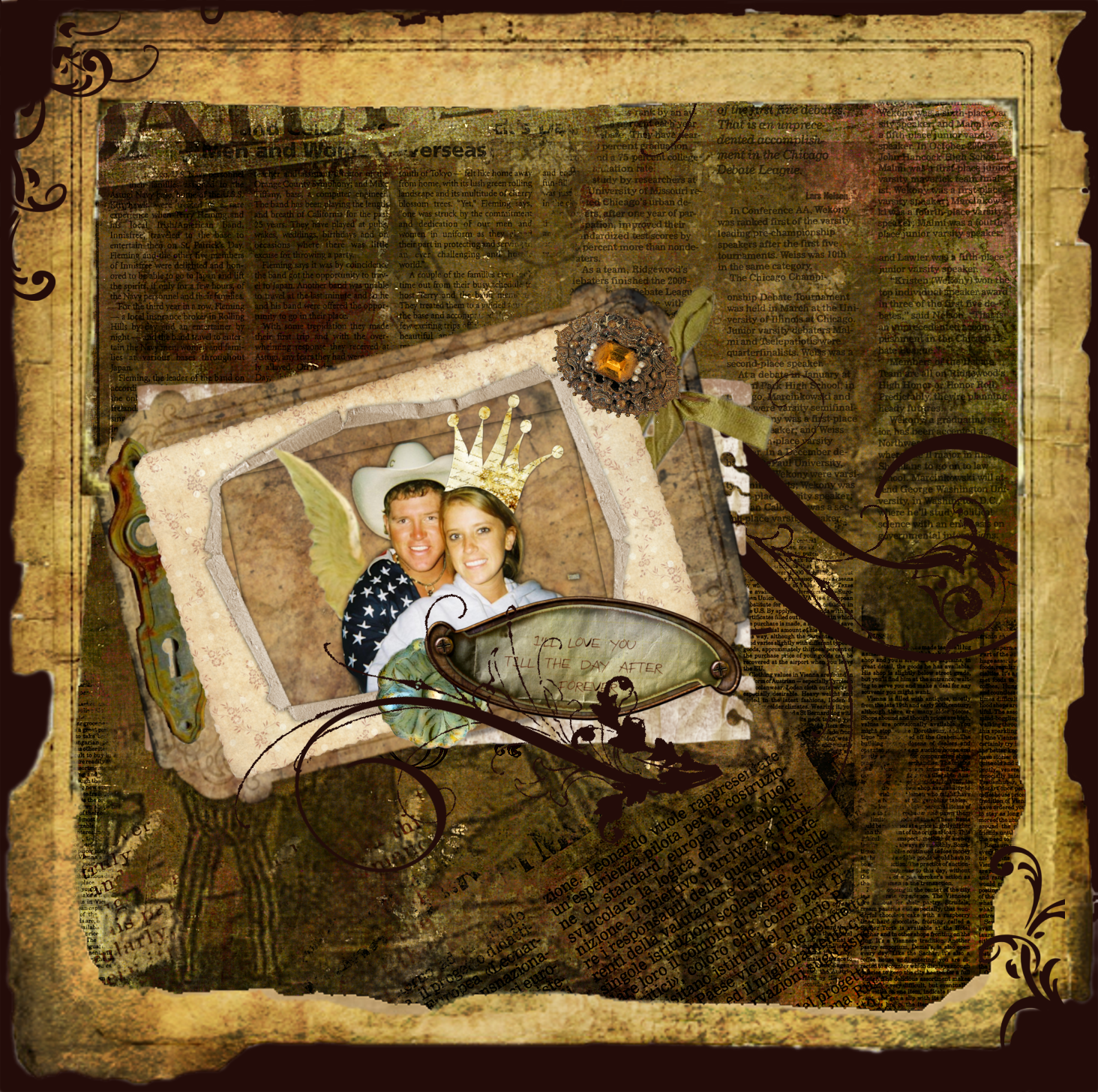 Just playing with some new scrapbook digital toys. Showing my DD how to use Paint Shop Pro to scrapbook..How fun it is! I'll go get some links for you. looking at it large I can sure see some things I would change or clean up!! She is anxious to try it all by herself.